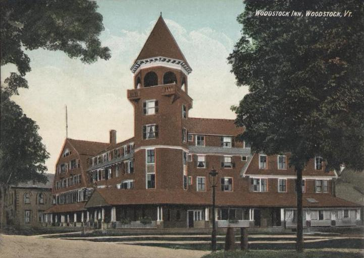 The Woodstock Inn, Woodstock, Vermont. Opened in 1892, and managed by Arthur Wilder from 1897-1935. The original Shingle Style building was replaced in 1969 by Laurance S. Rockefeller.